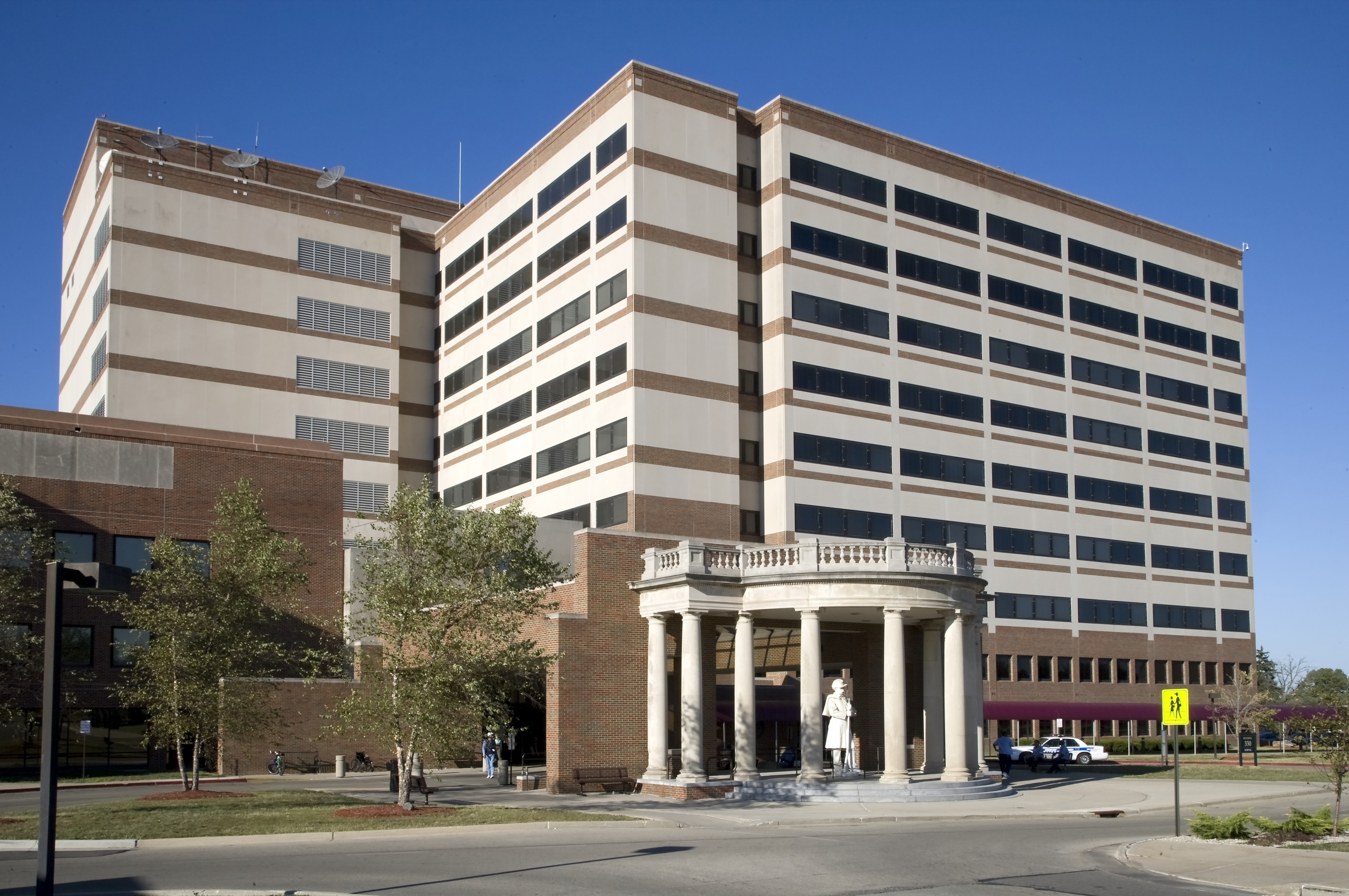 Dayton VA Medical Center 4100 W. Third Street Dayton, OH 45428 937-268-6511 | 800-368-8262